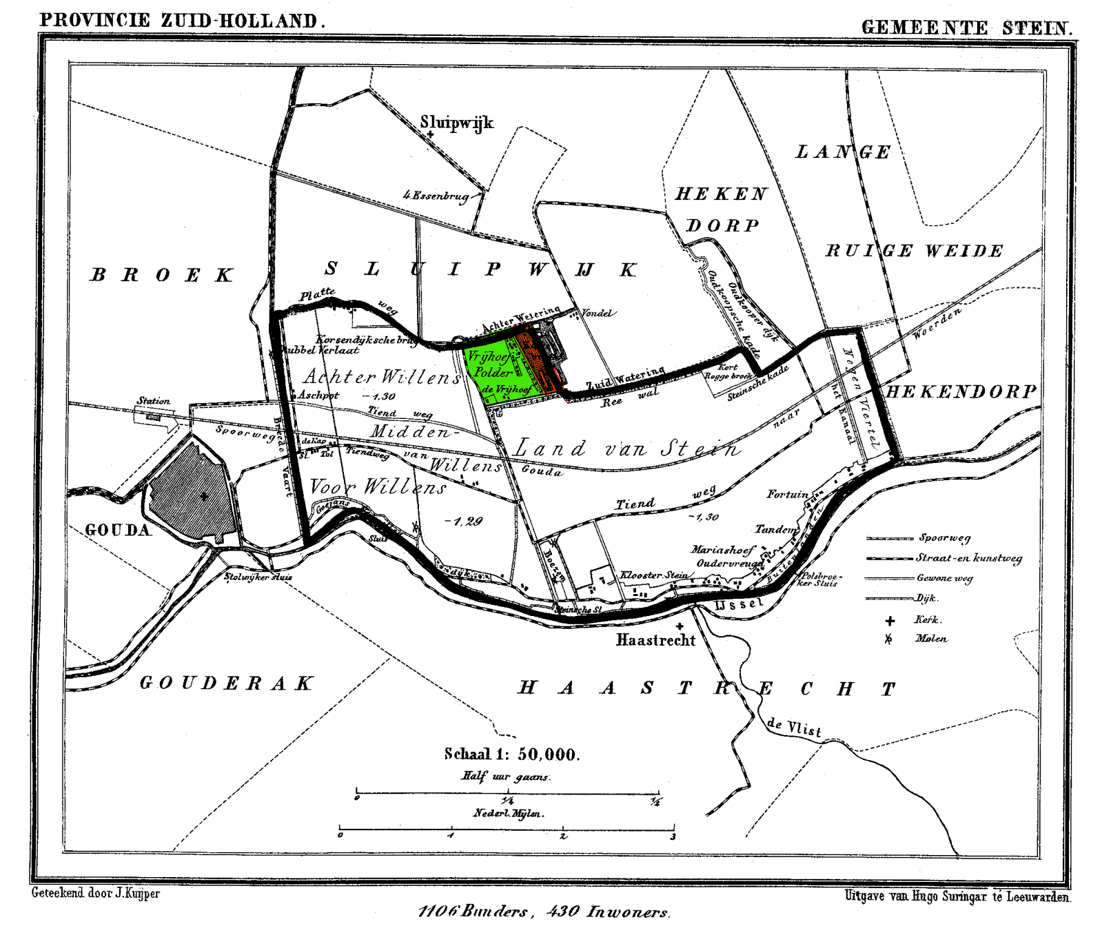 Historic map of Stein (now part of municipality Vlist), South Holland, the Netherlands; highlighted are the ancient heerlijkheden Vrijhoef in green and Kalverbroek in red (now part of Reeuwijk municipality)